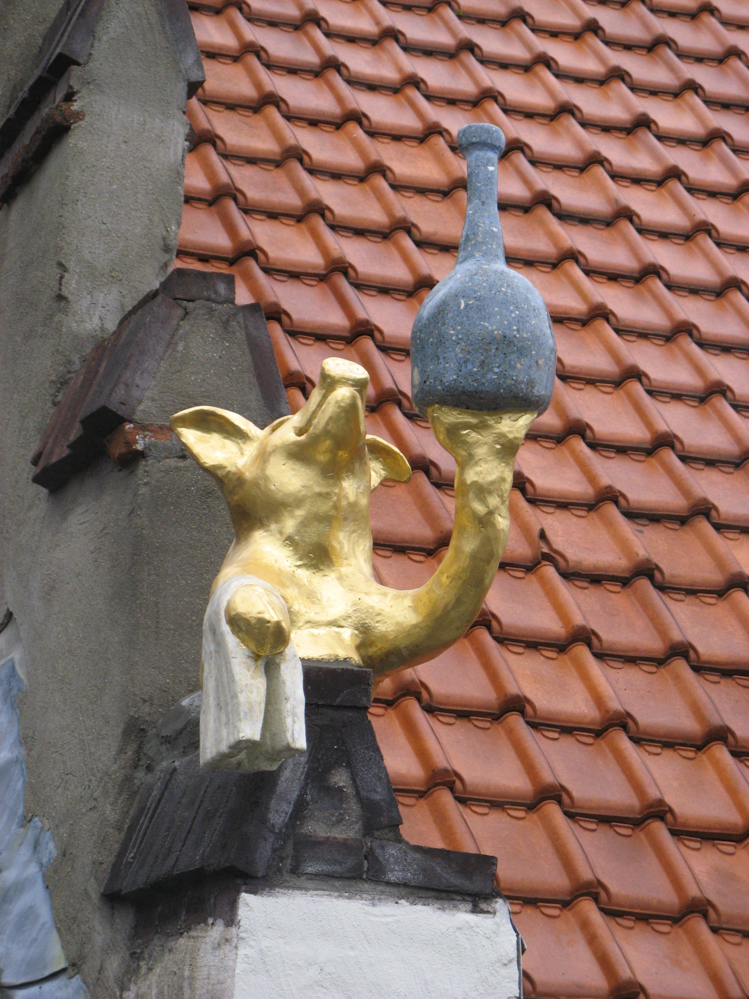 The pub on the townsquare hosts a golden pig, carrying a blue bottle.